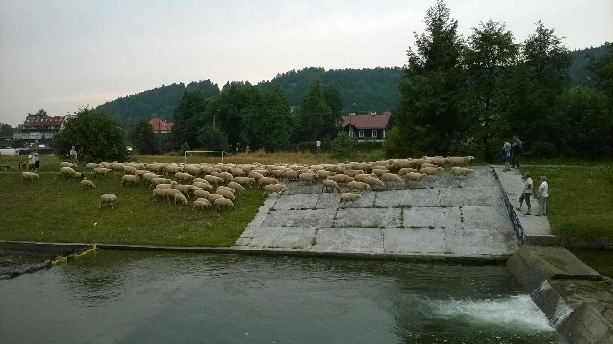 Sheeps in Brenna, Poland